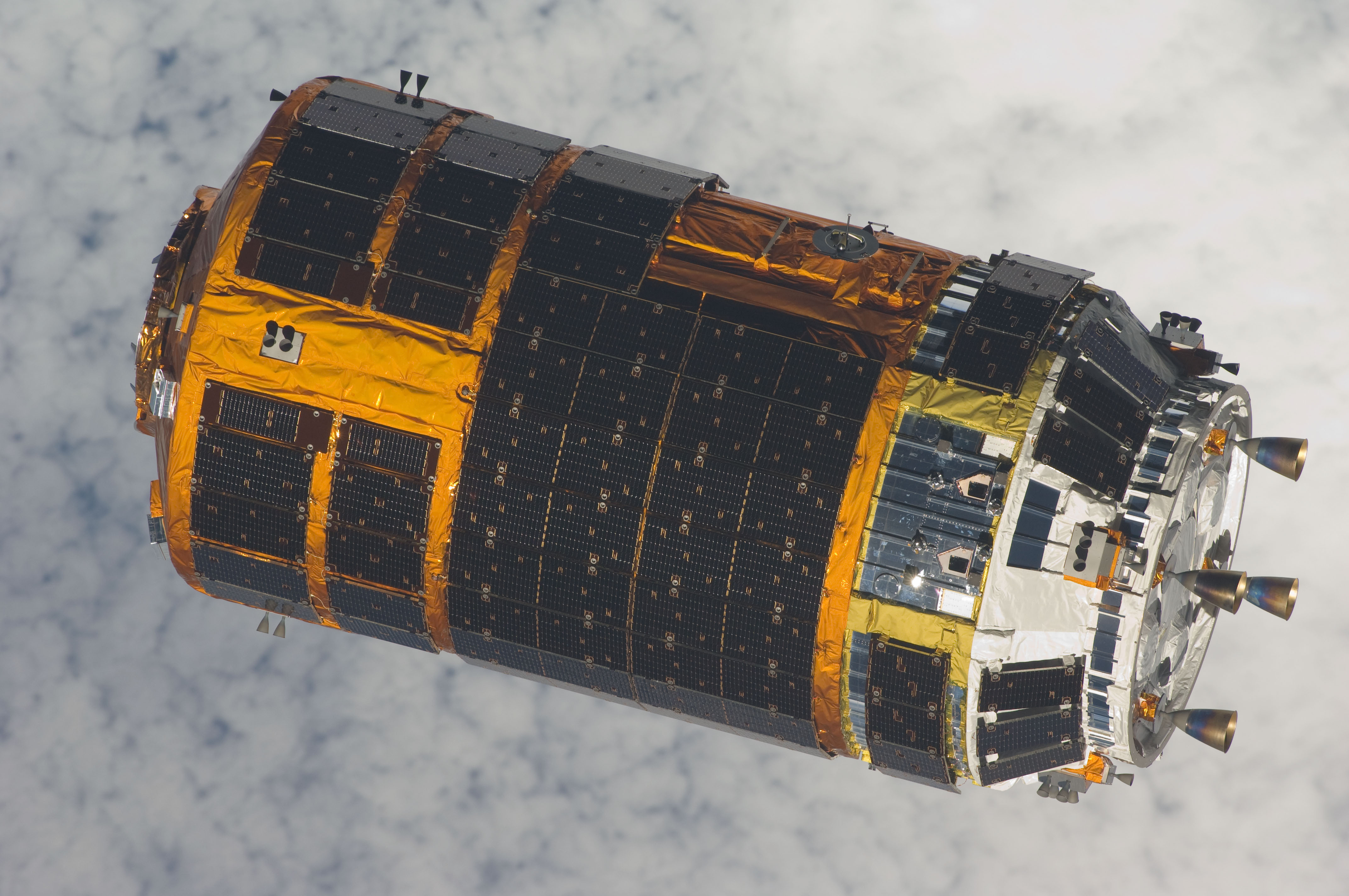 ISS021-E-017623 (30 Oct. 2009) --- Backdropped by a cloud-covered part of Earth, the unpiloted Japanese H-II Transfer Vehicle (HTV), filled with trash and unneeded items, departs from the International Space Station. European Space Agency astronaut Frank De Winne, Expedition 21 commander; NASA astronaut Nicole Stott and Canadian Space Agency astronaut Robert Thirsk, both flight engineers, used the station's Canadarm2 robotic arm to grab the HTV cargo craft and unberth it from the Harmony node's nadir port. The HTV was successfully unberthed at 10:18 a.m. (CDT) on Oct. 30, 2009, and released from the station's Canadarm2 at 12:32 p.m.